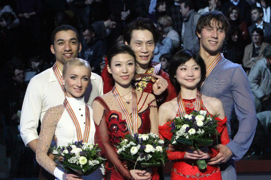 2010 World Figure Skating Championships - Aliona Savchenko, Robin Szolkowy, Pang Qing, Tong Jian, Yuko Kavaguti and Alexander Smirnov